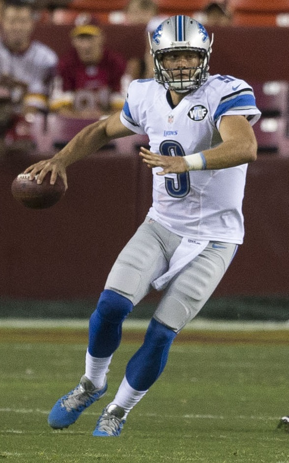 Lions at Redskins 8/20/15